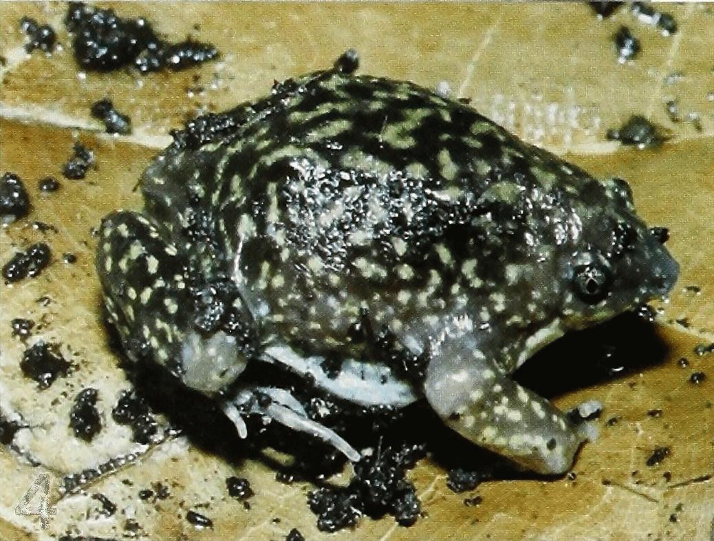 Hemisus guineensis. Cut-out from original published in Bonn zoological bulletin (2012), shown below.